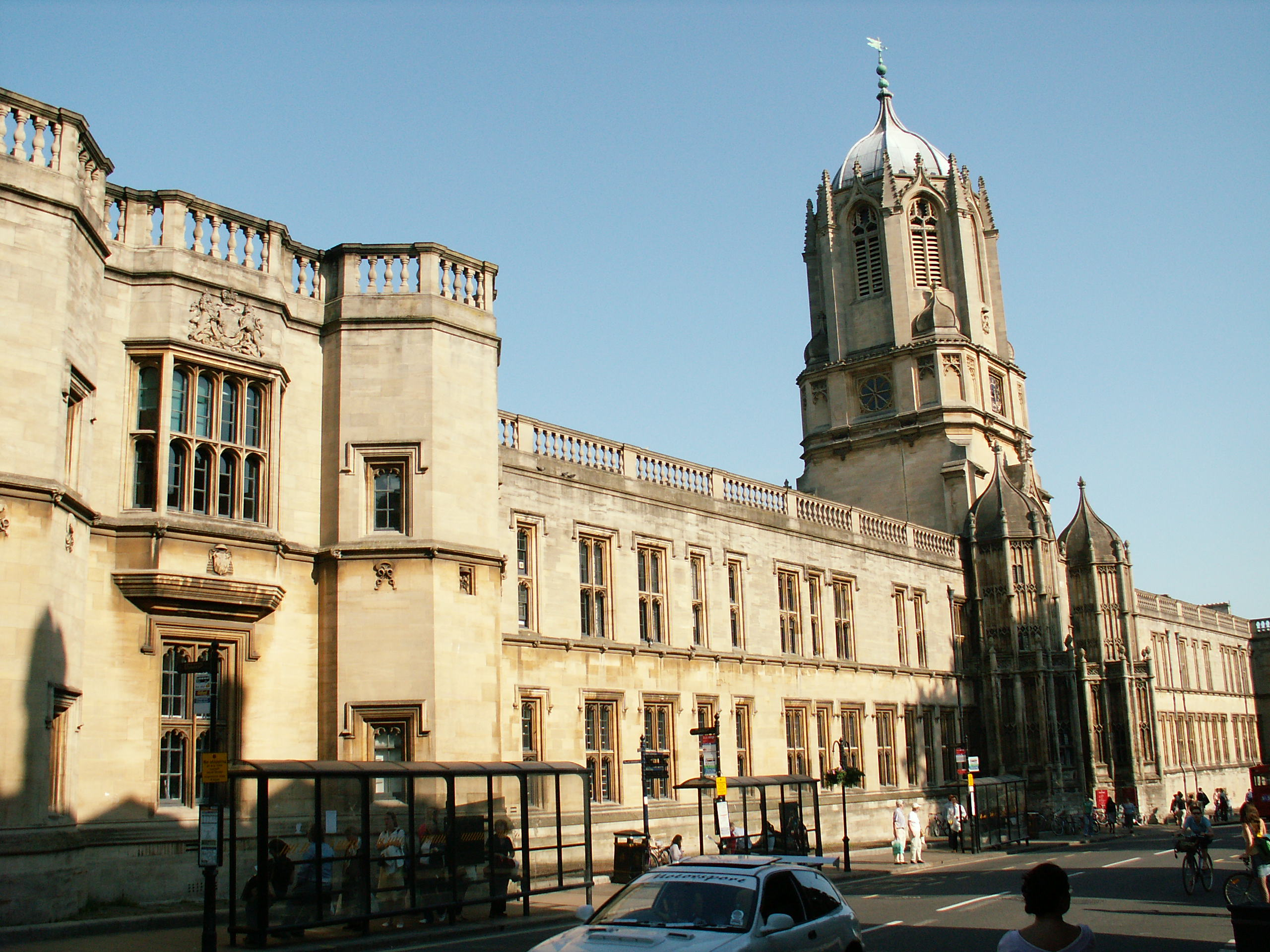 Christ Church, Oxford, seen from the northwest from St Aldate's Street